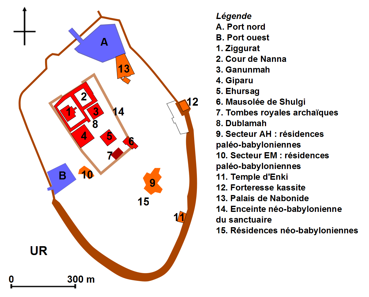 Simplified plan of the site of the ancient city of Ur (Tell Muqqayar), with location of the main monuments.